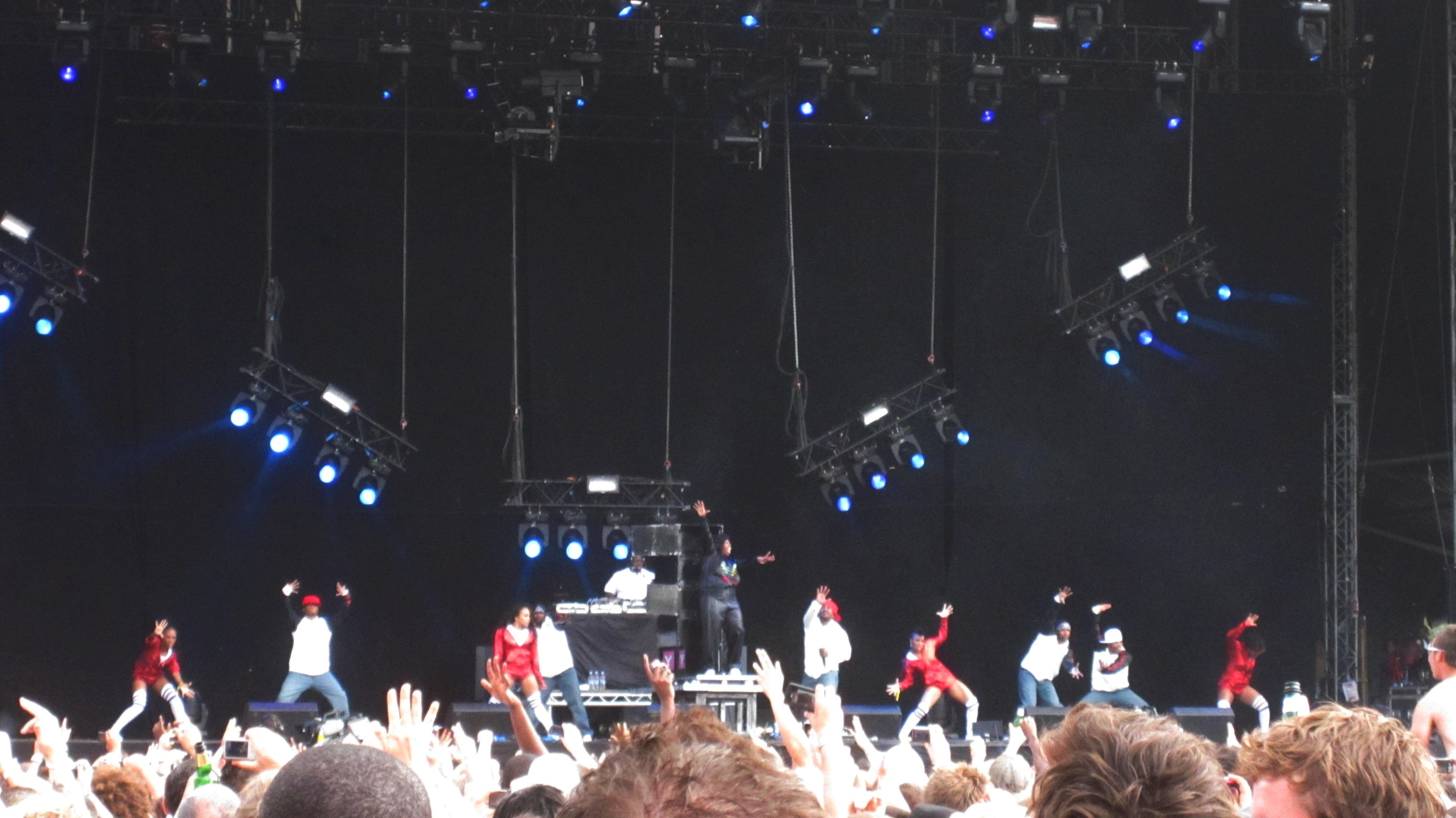 Missy Elliott live in Wireless Festival 2010.